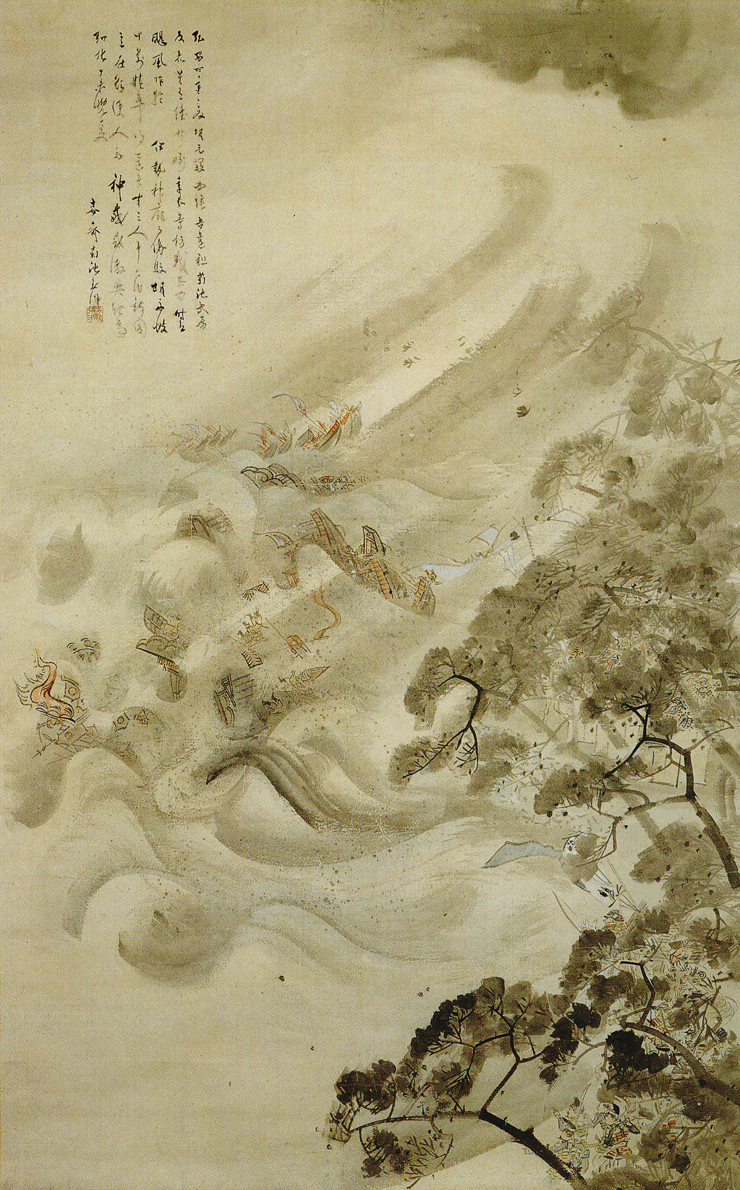 Mongol Invasion (Japanese: mōko shūrai), by Kikuchi Yoosai, 1847. Ink and water colors on paper. Tokyo National Museum. Shows the destruction of the Mongol fleet in a typhoon